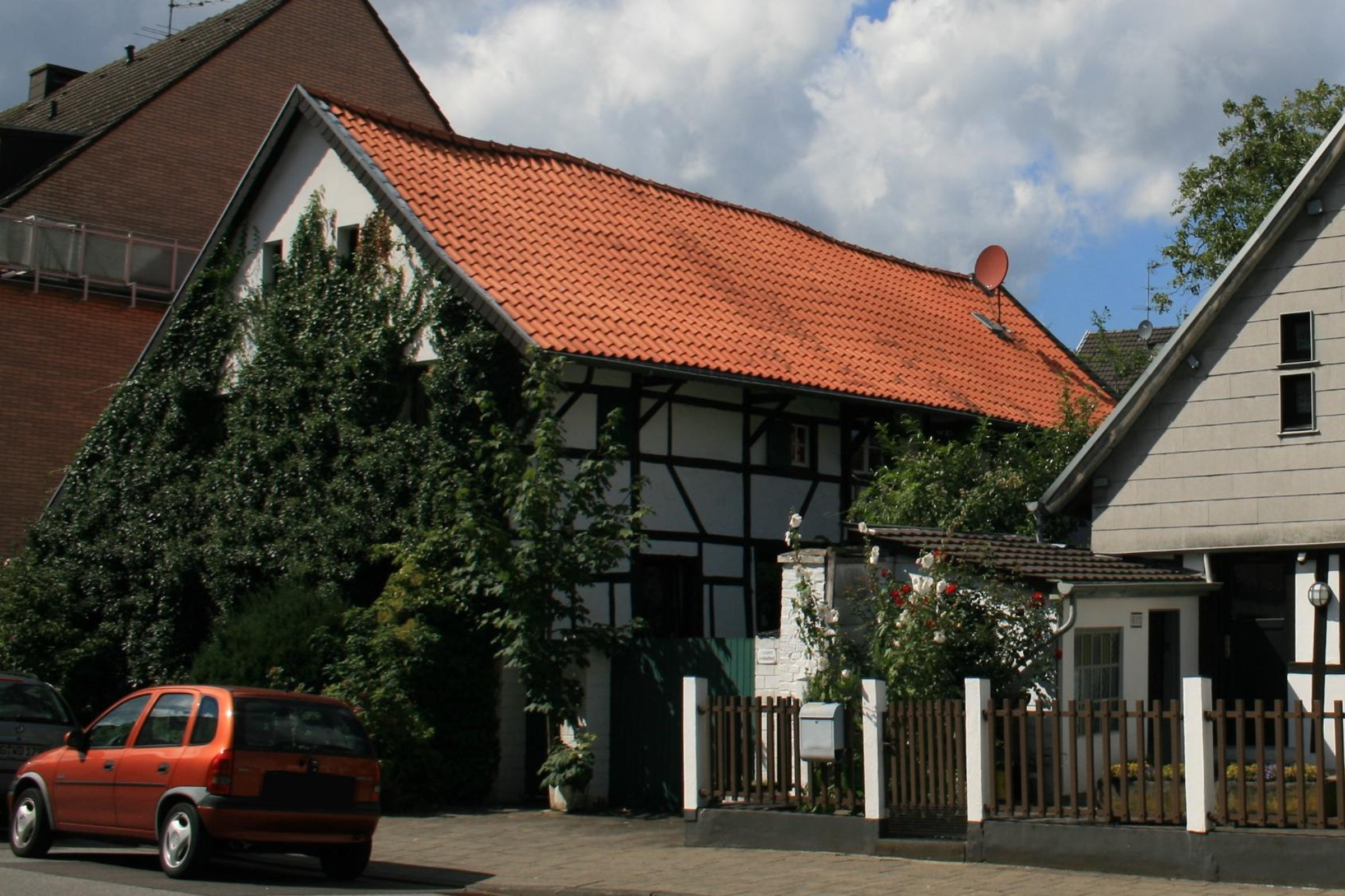 Cultural heritage monument No. G 001 in Mönchengladbach